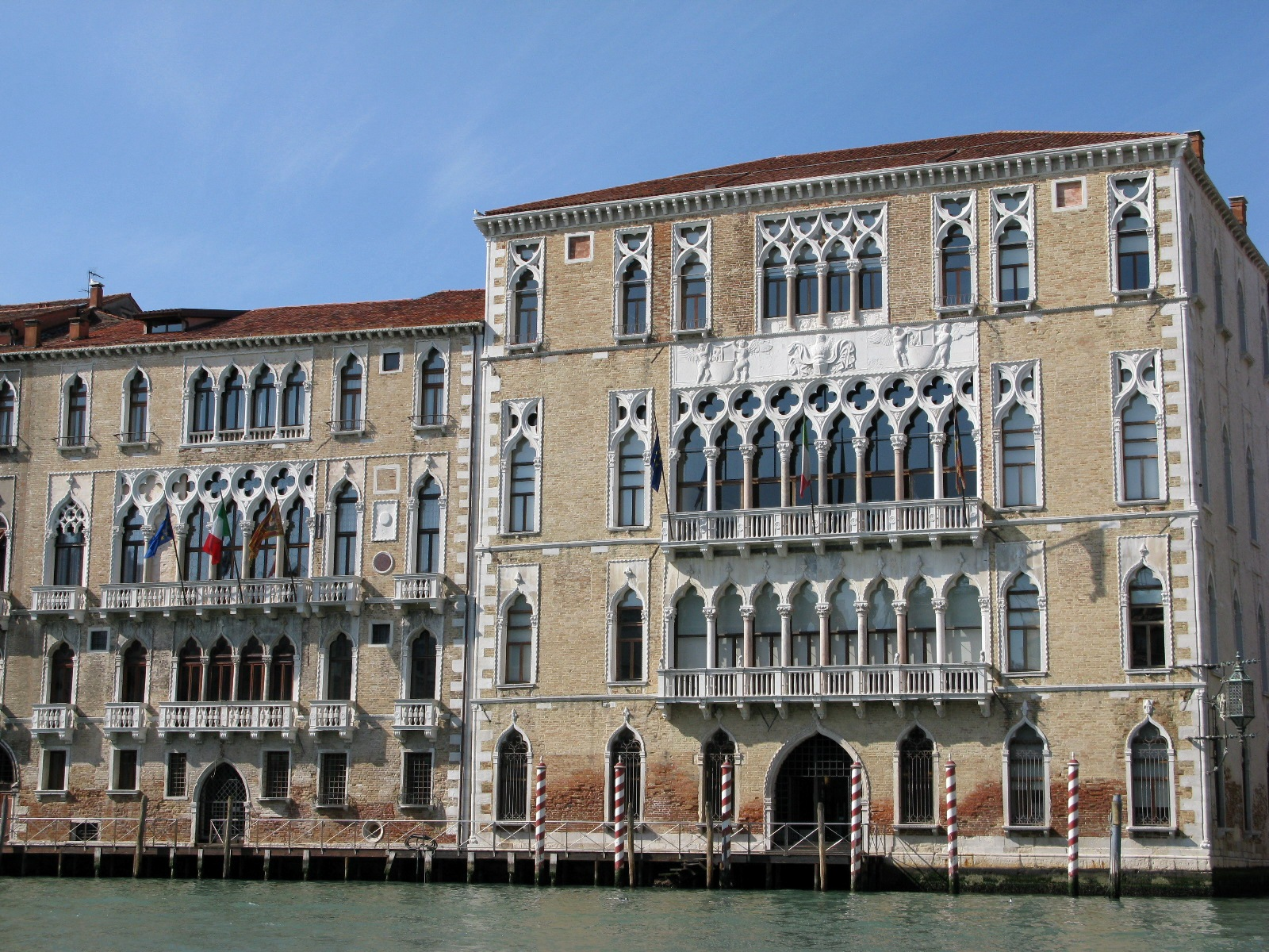 Ca' Foscari Palace, the main seat of Ca' Foscari University of Venice (Italy).